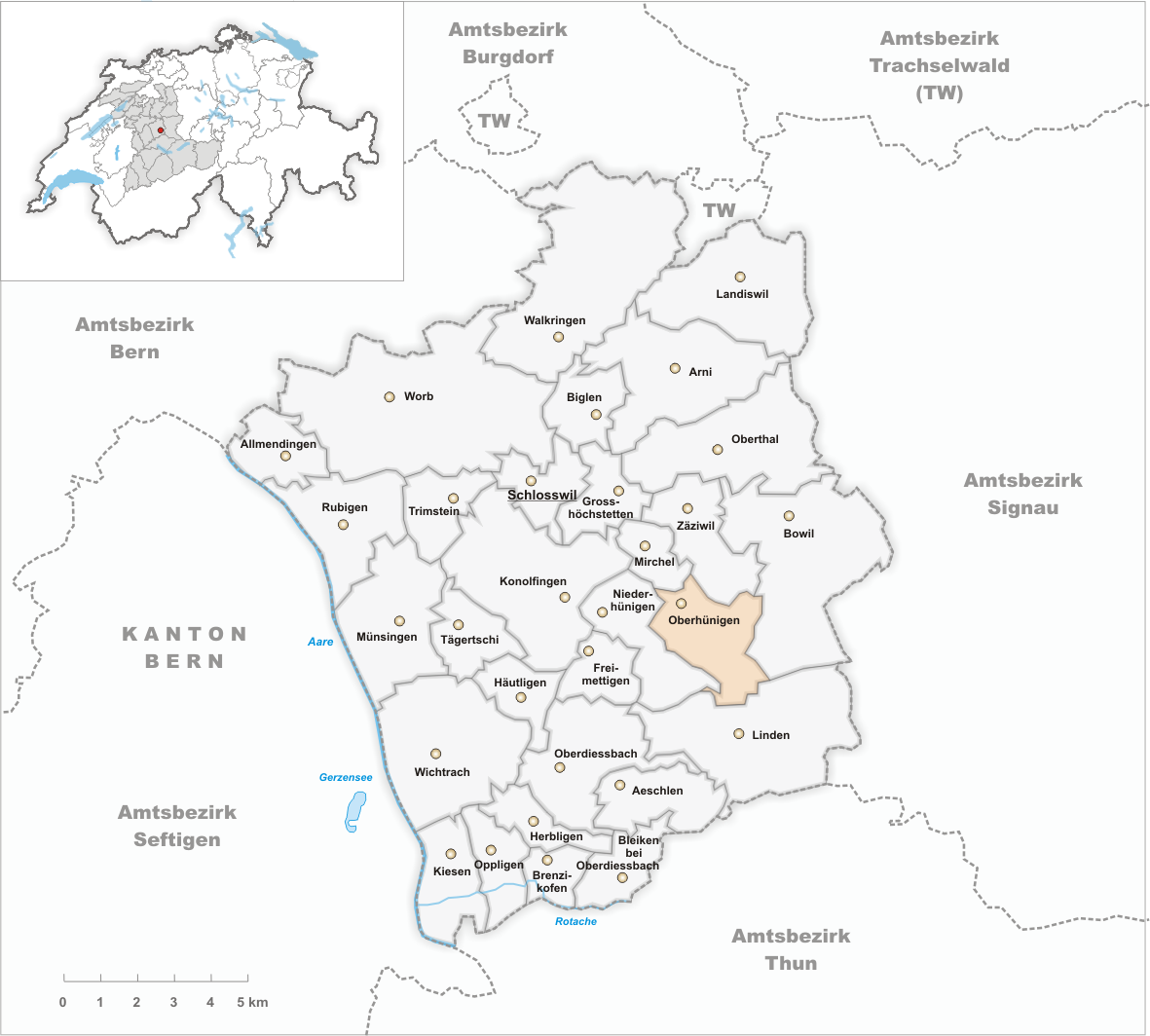 Municipality Oberhünigen